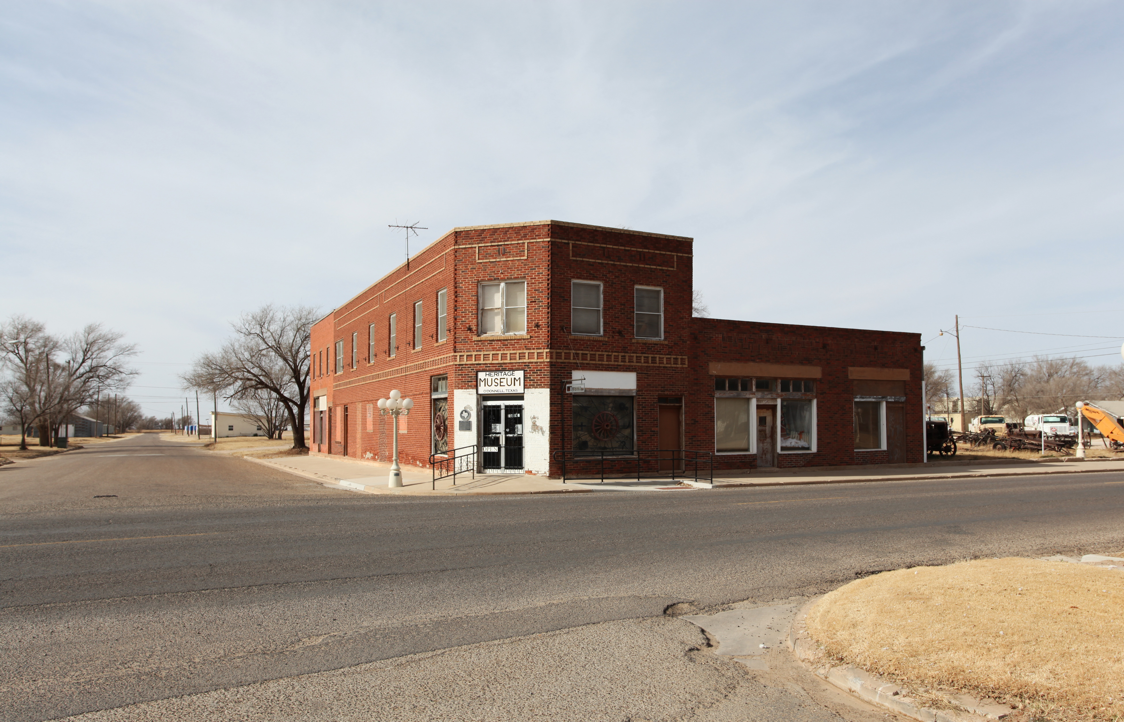 Heritage Museum, O'Donnell, Texas.